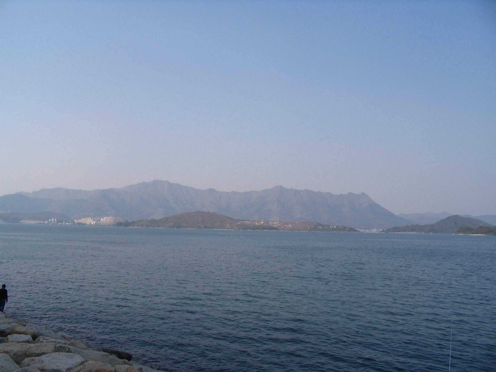 Photo of Pat Sin Leng View of Tolo Harbour with Ping Fung Shan, Wong Leng, Lai Pek Shan and Pat Sin Leng in the background. The island of Ma Shi Chau is on the right, Yim Tin Tsai is in the middle, and The Beverly Hills property development is on the left.